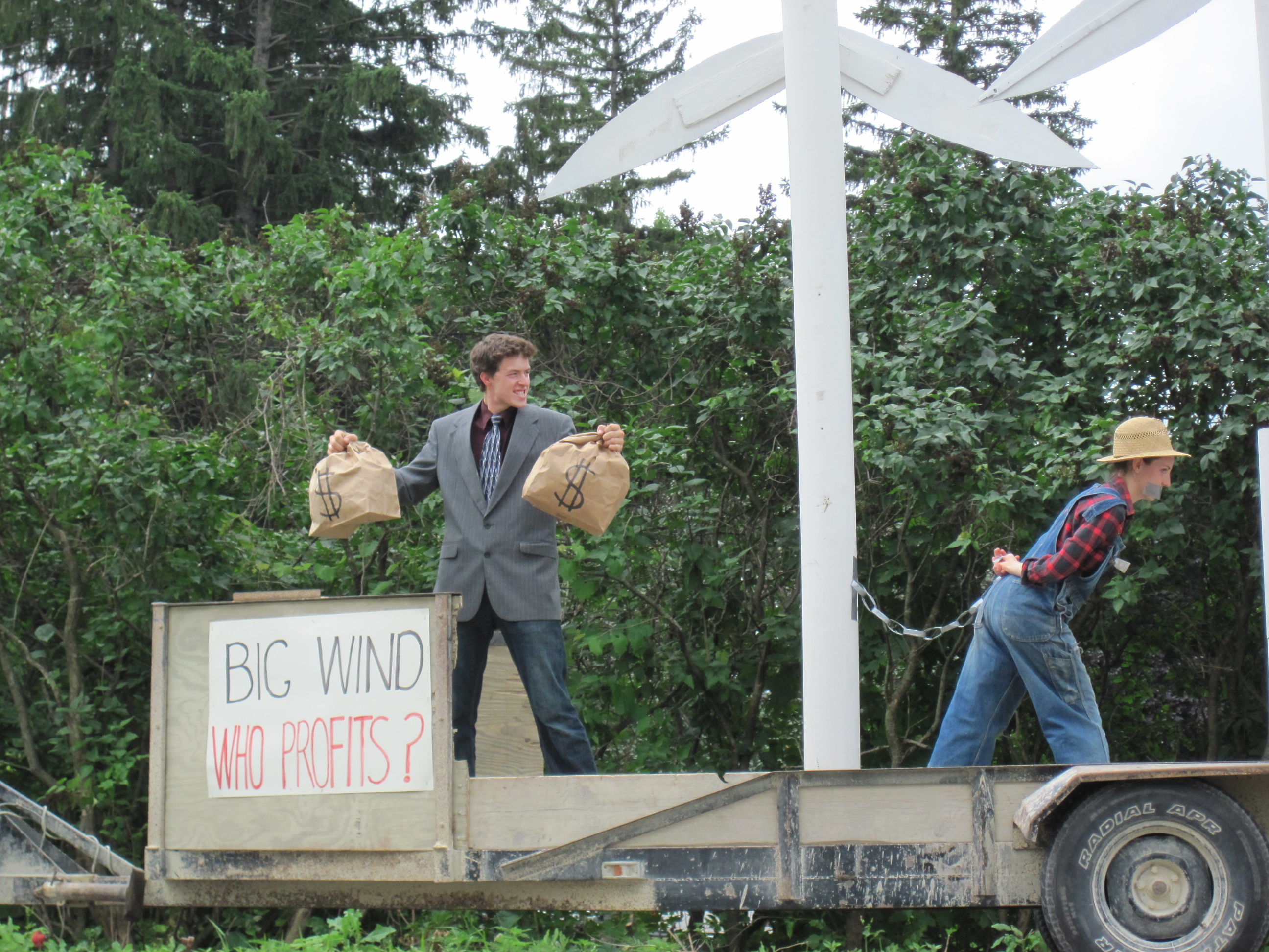 Protest float against wind power, Vasa, 4th of July 2010